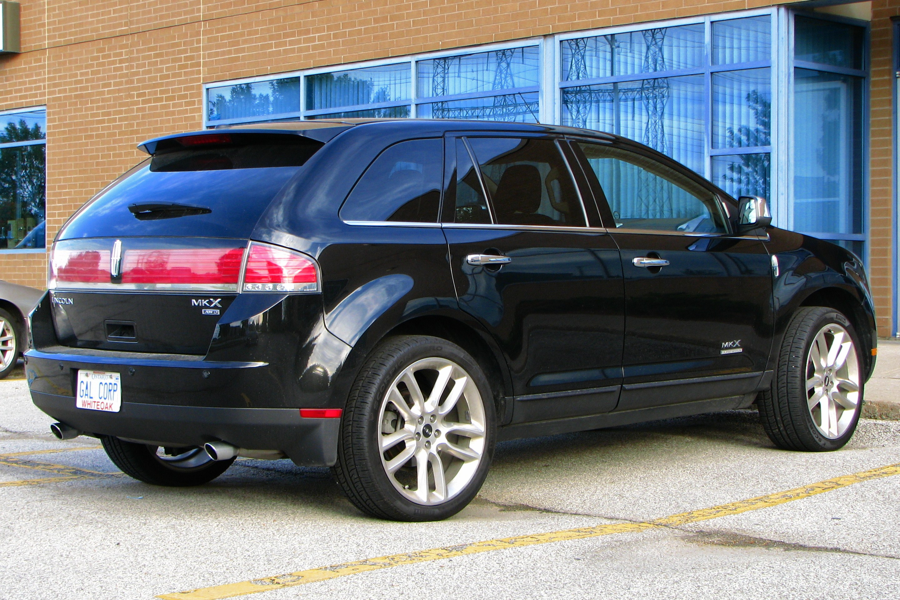 I love the wheels that comes with these! 22s! So nice!